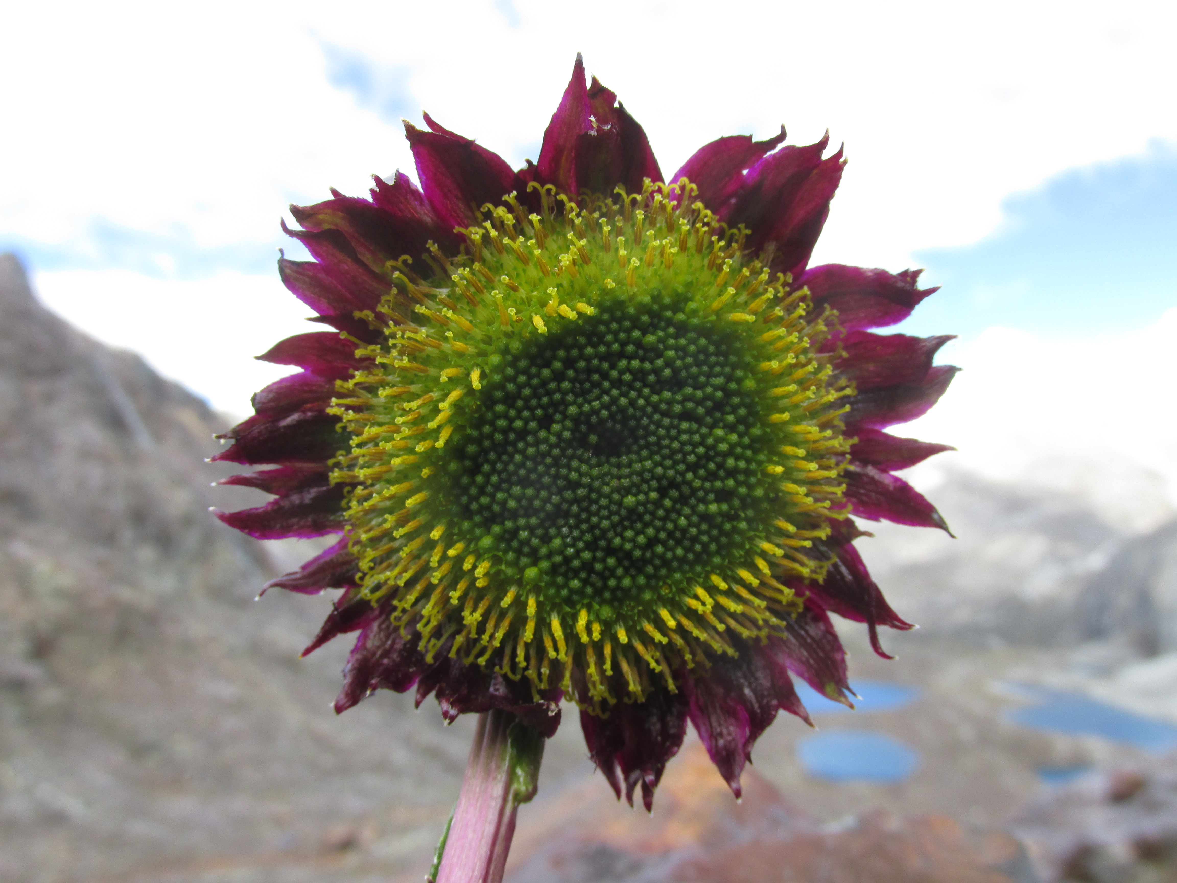 Inflorescencia de Senecio serratifolius